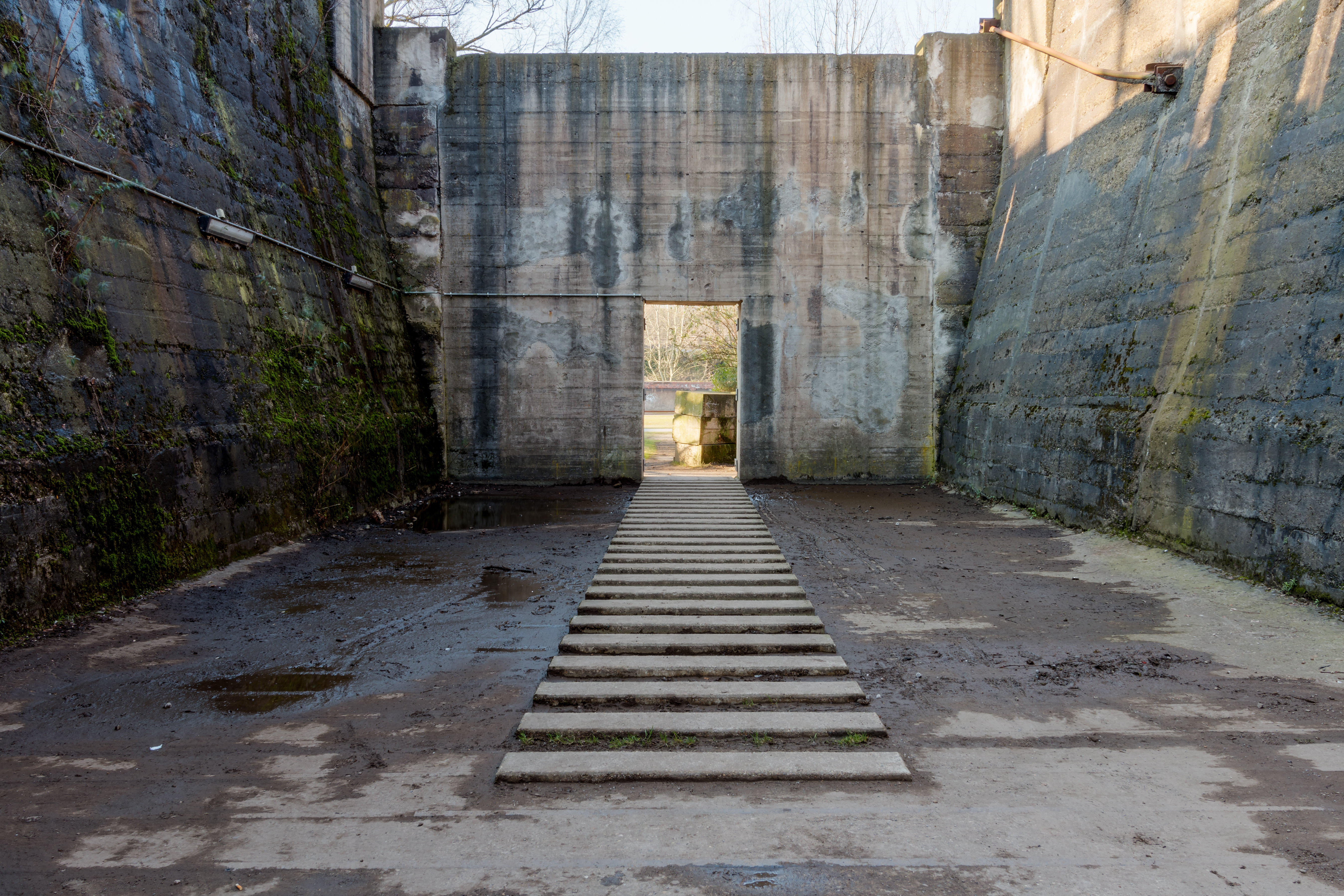 Ore bunkers in Landschaftspark Duisburg-Nord in Duisburg, North Rhine-Westphalia, Germany